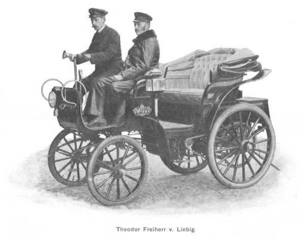 Photograph of Theodor von Liebieg (1872-1939), a textile industrialist from Reichenberg, Bohemia (now Liberec, Czech Republic) in his car, probably with his driver. The description (in German) does not mention who the other person is.